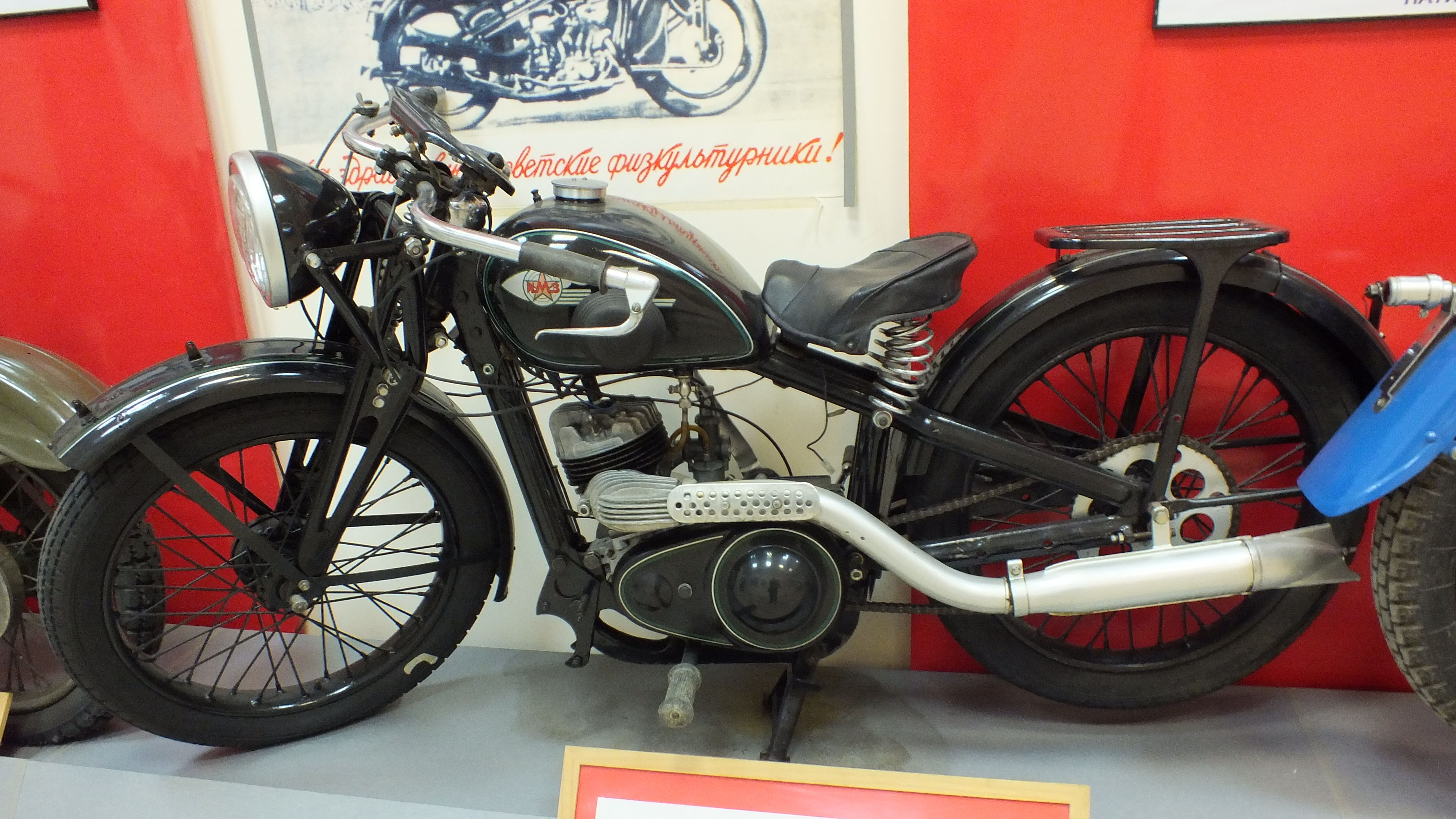 IZH motorcycles